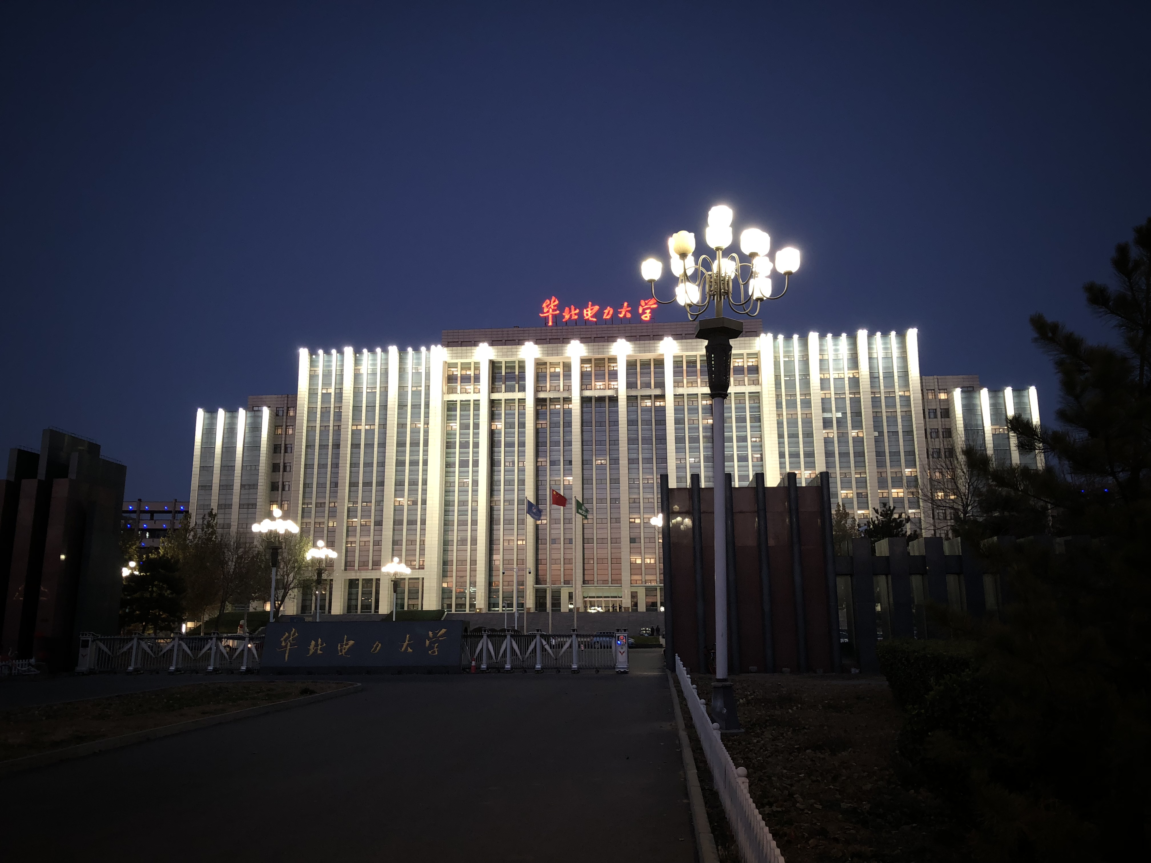 华北电力大学—昌平—夜